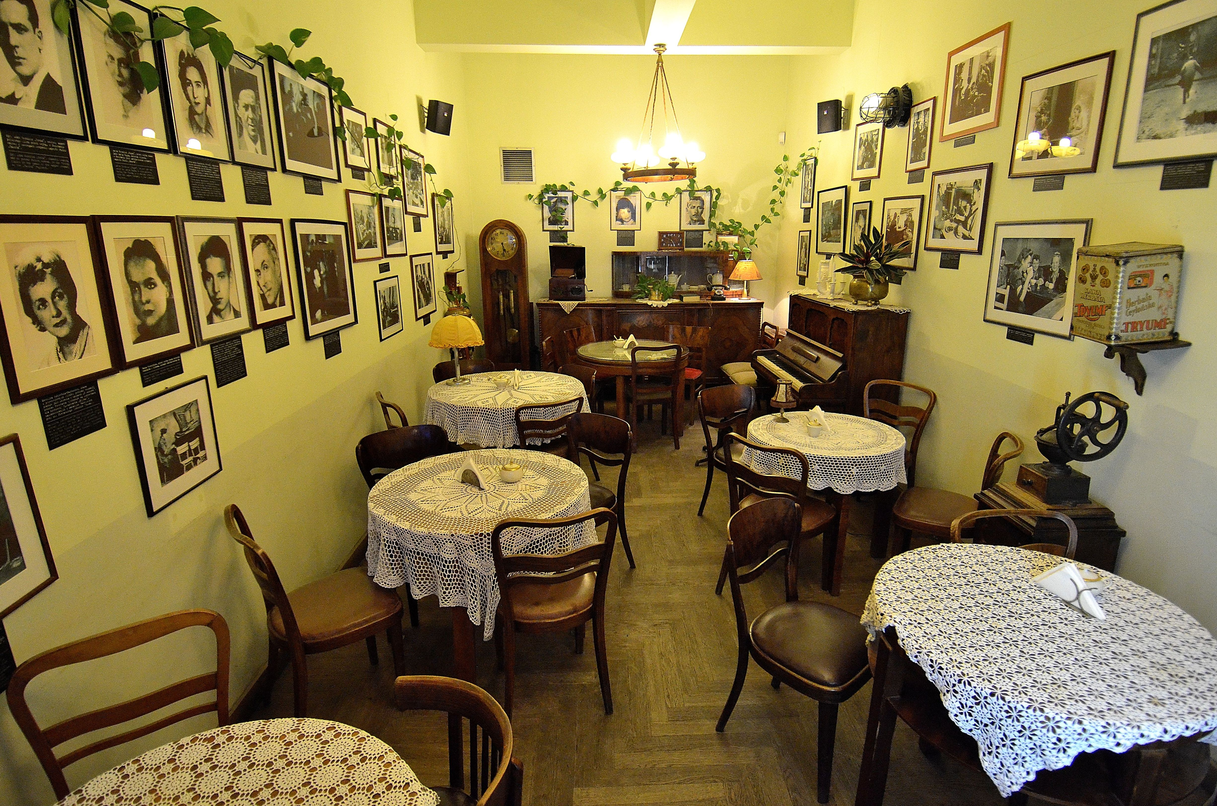 "Pół Czarnej" coffee in the Warsaw Uprising Museum